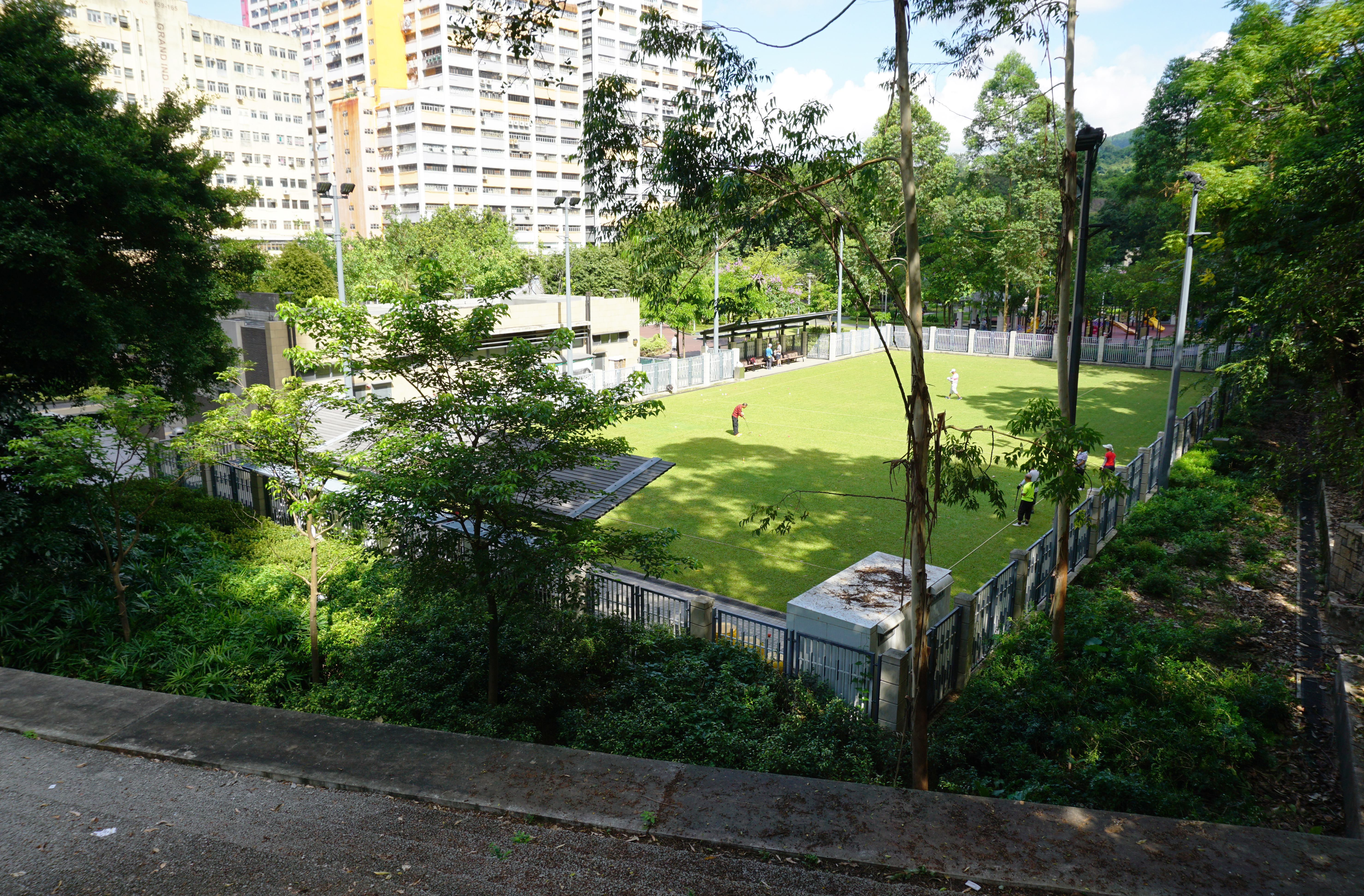 Lei Muk Road Park in Shek Yam, Hong Kong.